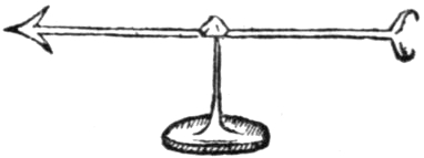 Illustration from De Magnete, etc. by William Gilbert (1600, translated 1900), showing an electric versorium